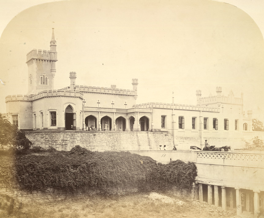 Photographer: Dixon, Henry Medium: Photographic print Date: 1860 Photograph of a general view of the house known locally as The Castle, from the Archaeological Survey of India Collections: India Office Series (volume 21, 'a' numbers) taken by Henry Dixon in the early 1860s. Built in the form of a mediaeval castle by the Collector Mr Brett (1859-62), this building served as the divisional officer's 'bungalow'. It was purchased by the Government in 1875. The family group gathered on the verandah is possibly the Bretts.